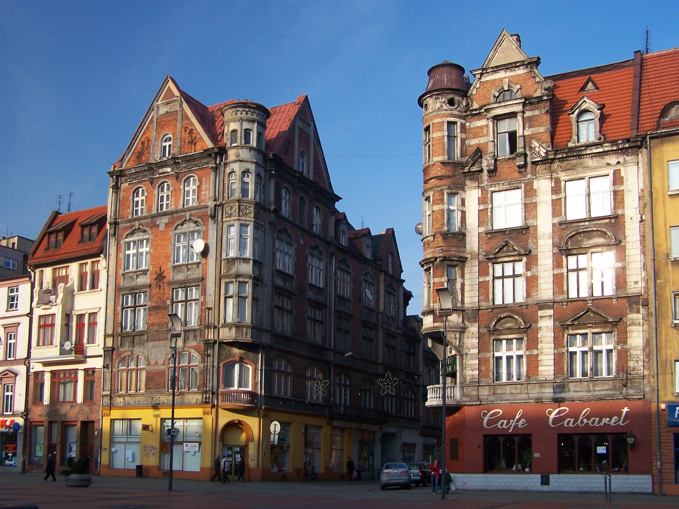 Market Square in Bytom (Poland).